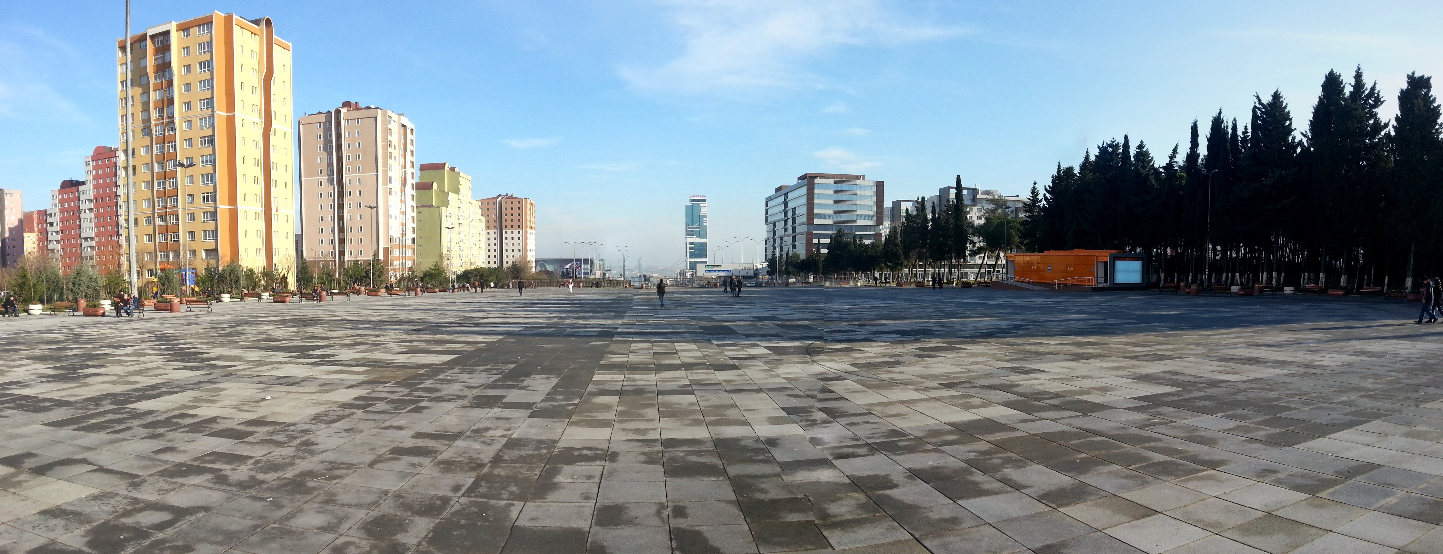 Beylikduzu Square